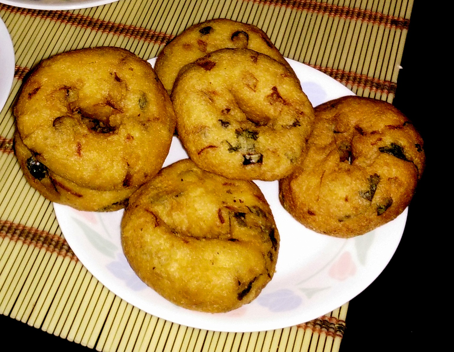 Uzhunnu Vada (ഉഴുന്ന് വട) is a common savoury fritter-type snack from South India. It made with Urad dal (black gram) flour. This vada is shaped like a doughnut with a hole in the middle.